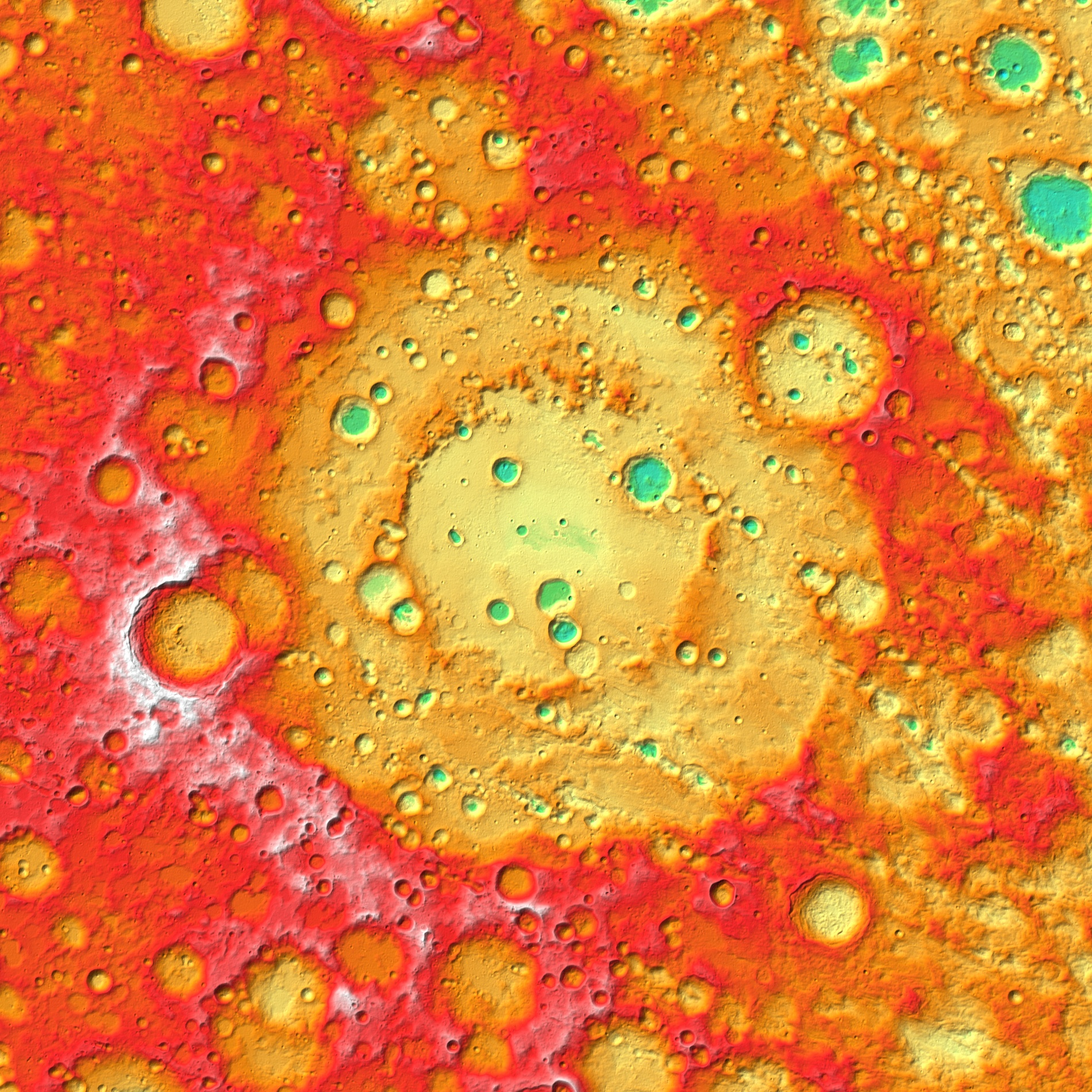 Crater Hertzsprung (diam. 570 km) on the Moon (on the farside). Coordinates of center of the crater are 1.3°N, 128.7°W. Topographic map (color shaded relief) based on Global Lunar DTM 100 m topographic model (GLD100), which is based on data acquired by Lunar Reconnaissance Orbiter. Width of the image is 900 km, north is up. The image has the same borders and resolution as a photomosaic Hertzsprung (LRO).png